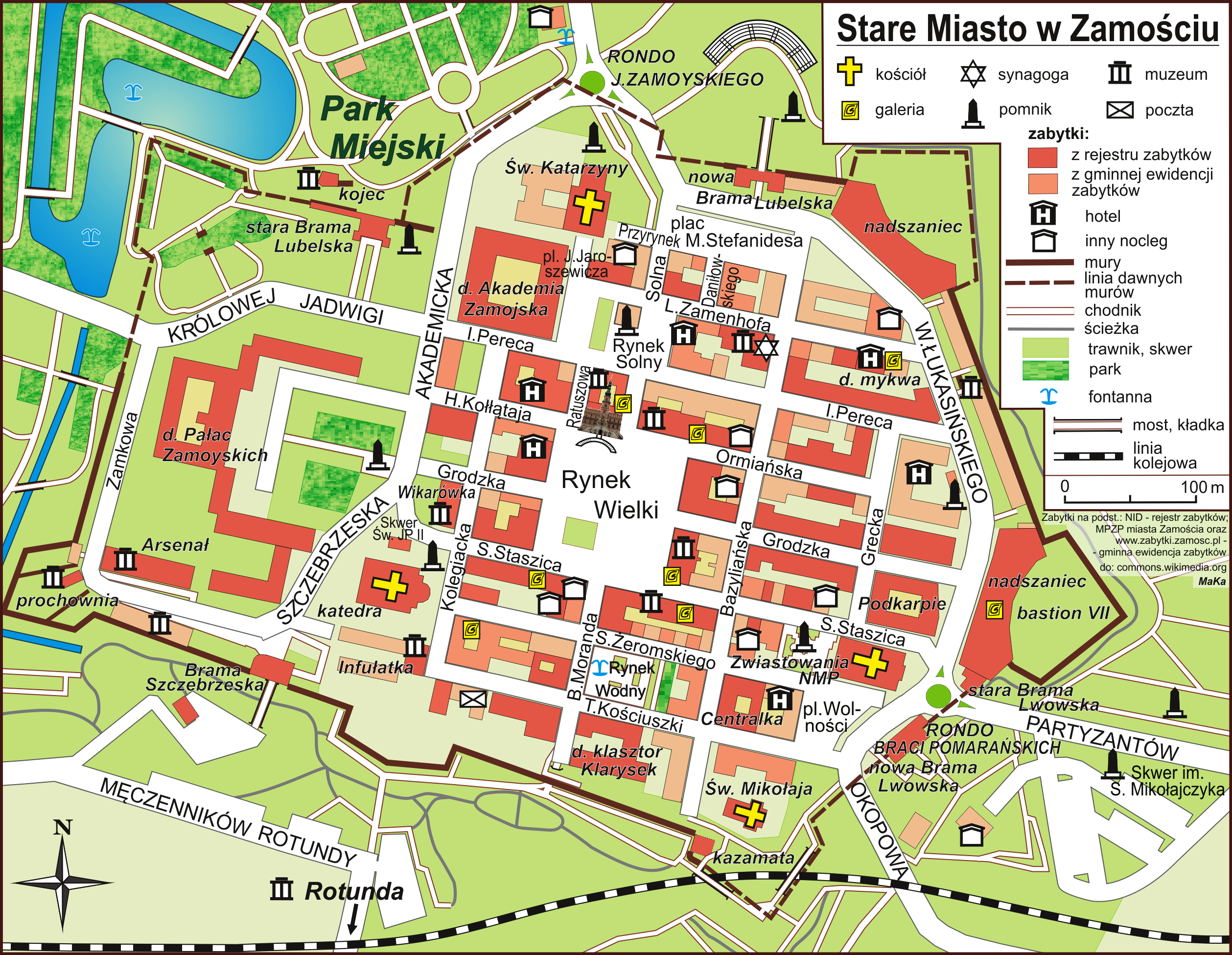 Old City of Zamość plan